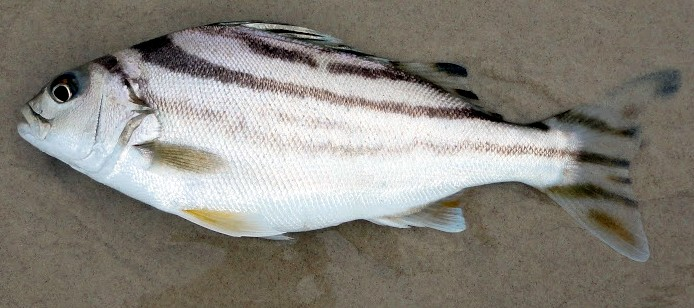 Terapon jarbua caught at Shark Bay